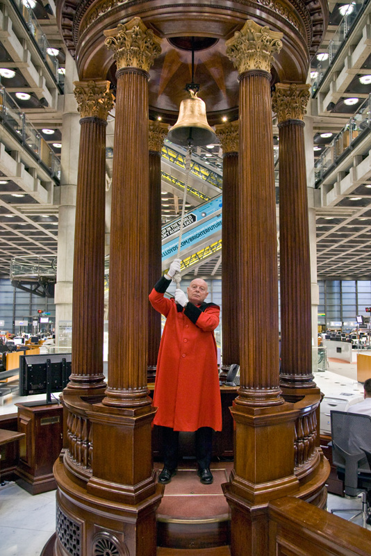 The Lutine Bell is housed in the rostrum in the Underwriting Room at Lloyd's of London